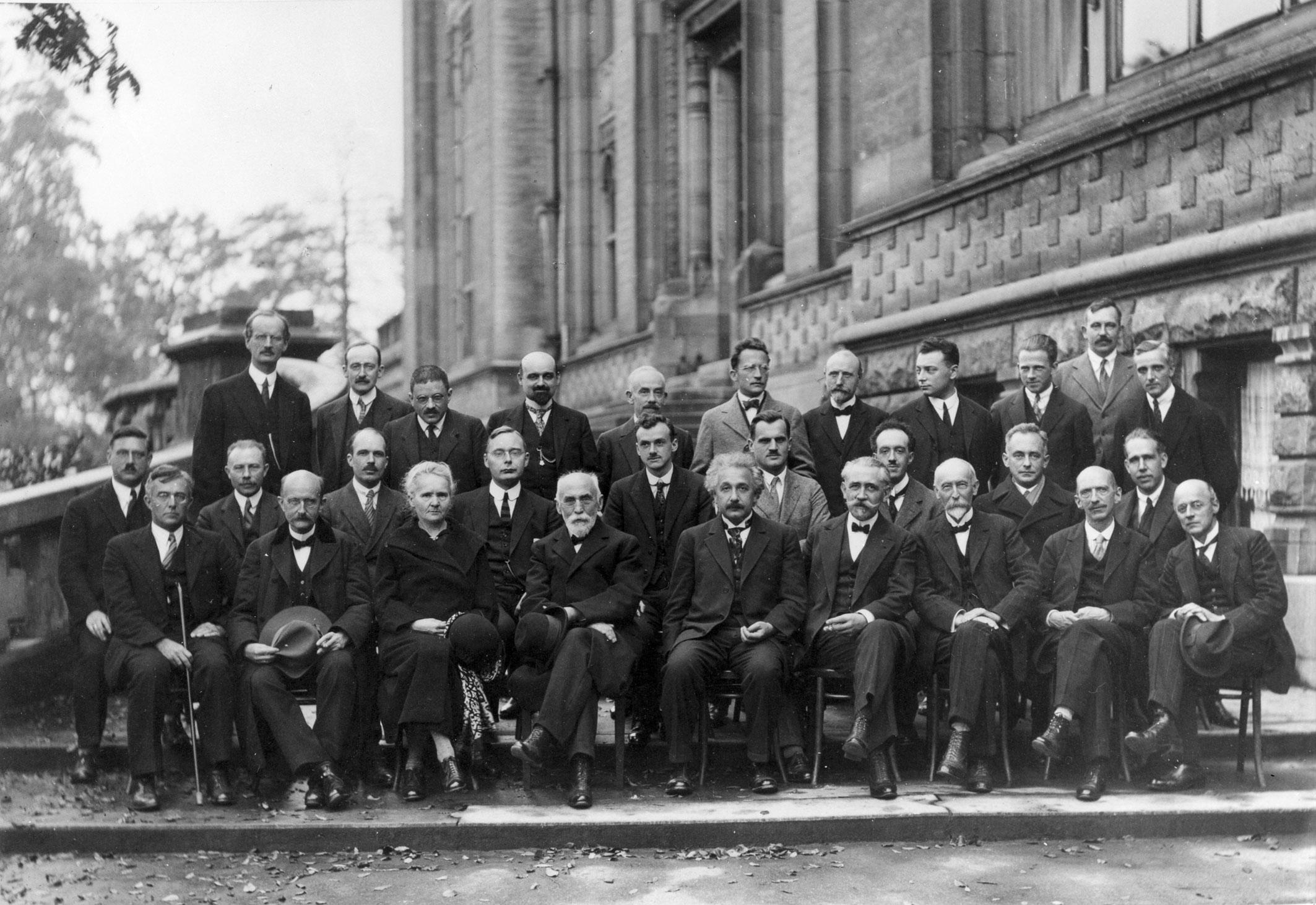 1927 Solvay Conference on Quantum Mechanics. Photograph by Benjamin Couprie, Institut International de Physique Solvay, Brussels, Belgium. From back to front and from left to right : Auguste Piccard, Émile Henriot, Paul Ehrenfest, Édouard Herzen, Théophile de Donder, Erwin Schrödinger, Jules-Émile Verschaffelt, Wolfgang Pauli, Werner Heisenberg, Ralph Howard Fowler, Léon Brillouin, Peter Debye, Martin Knudsen, William Lawrence Bragg, Hendrik Anthony Kramers, Paul Dirac, Arthur Compton, Louis de Broglie, Max Born, Niels Bohr, Irving Langmuir, Max Planck, Marie Skłodowska Curie, Hendrik Lorentz, Albert Einstein, Paul Langevin, Charles Eugène Guye, Charles Thomson Rees Wilson, Owen Willans Richardson This picture is also available with names at the bottom.